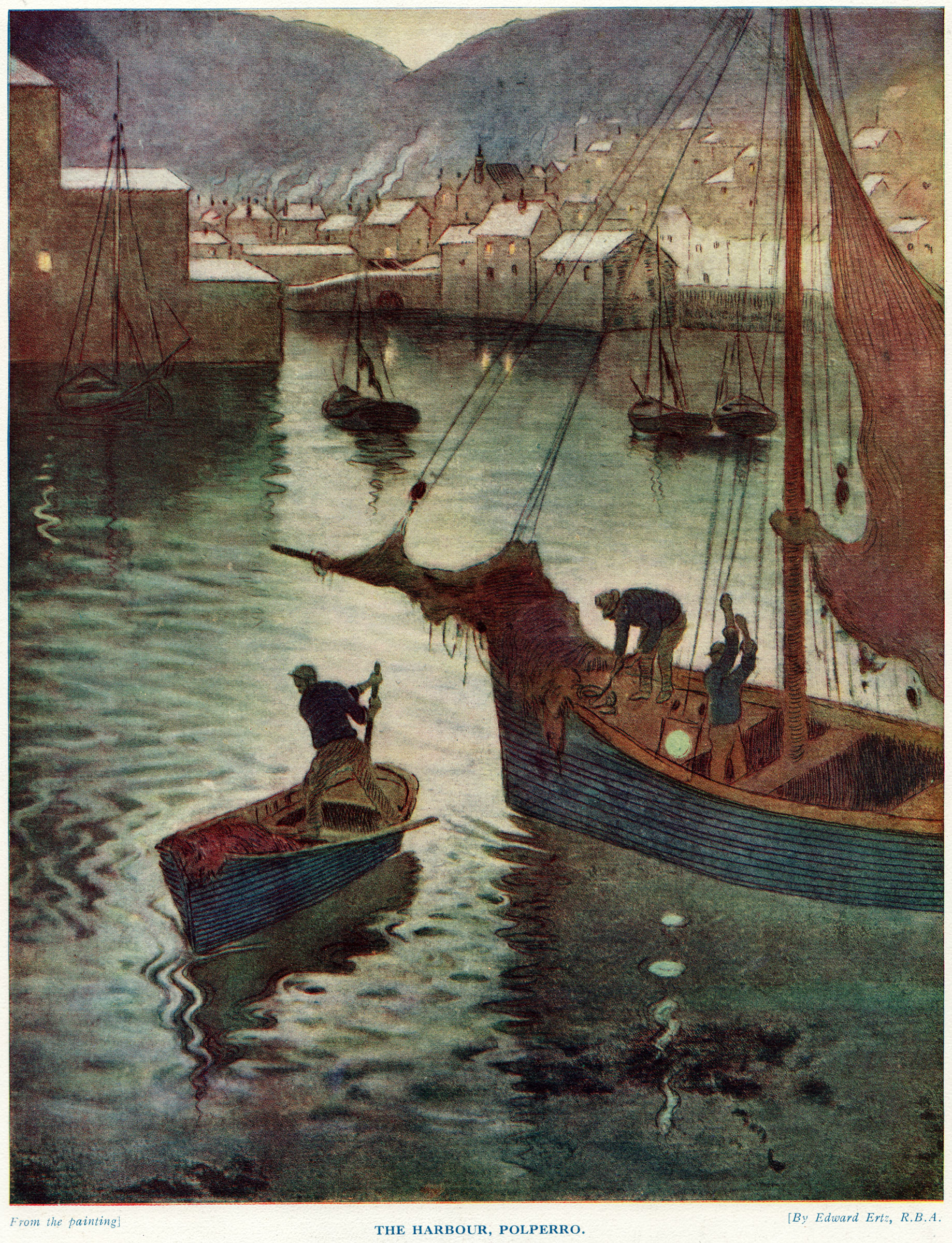 A colour scan of a print in a book. Public domain due to the age of the book and the original artwork.